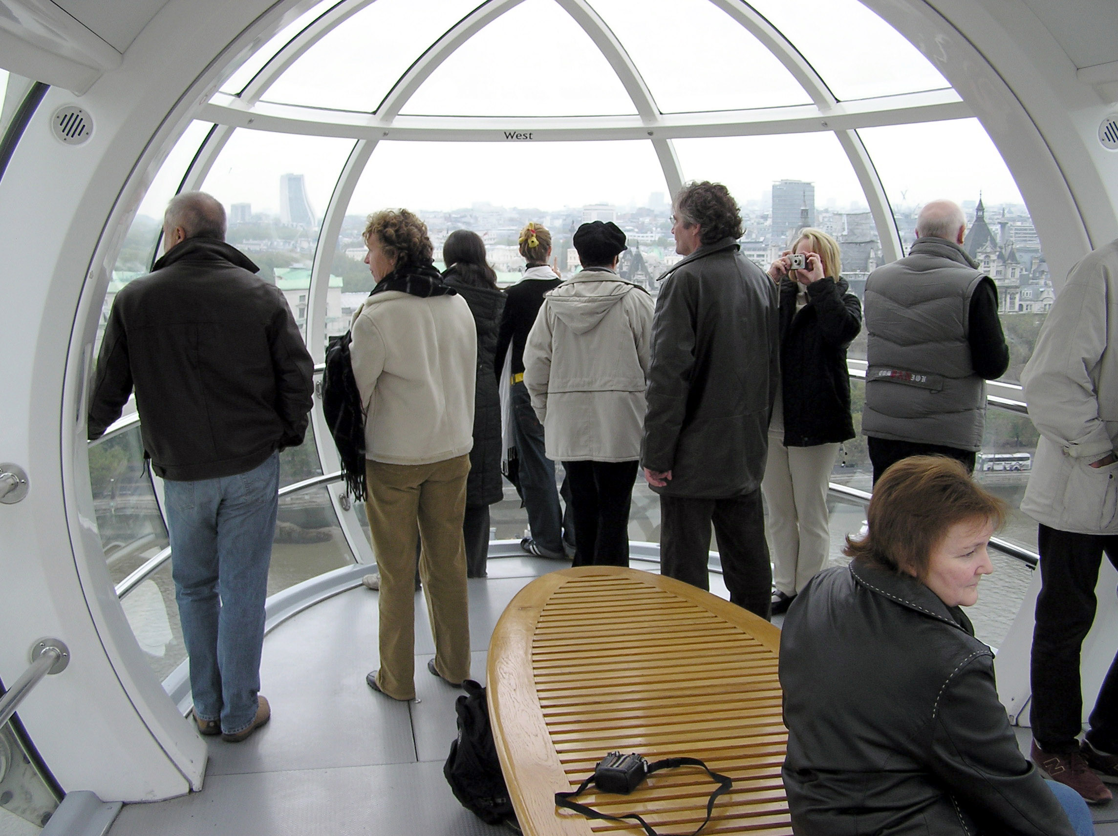 Inside a London Eye capsule. Photographed by Adrian Pingstone in November 2004 and released to the public domain.